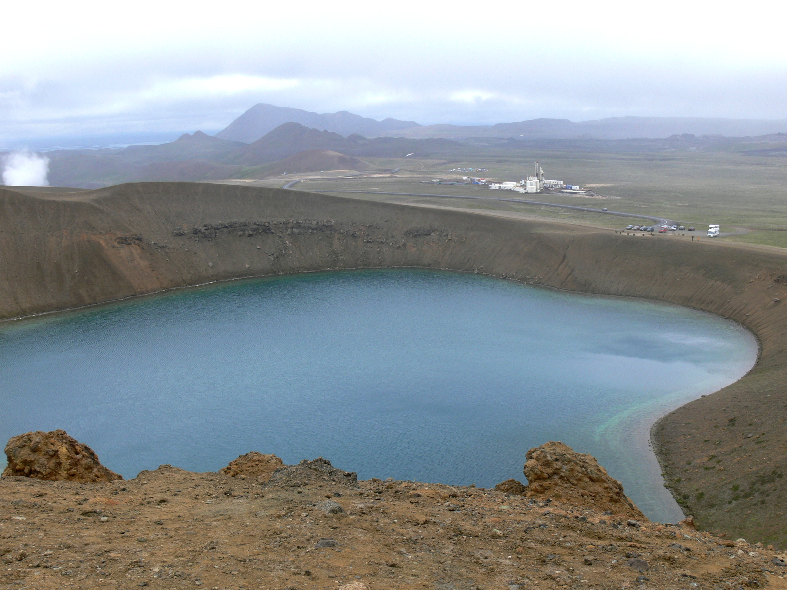 Viti Crater lake ( Iceland ).